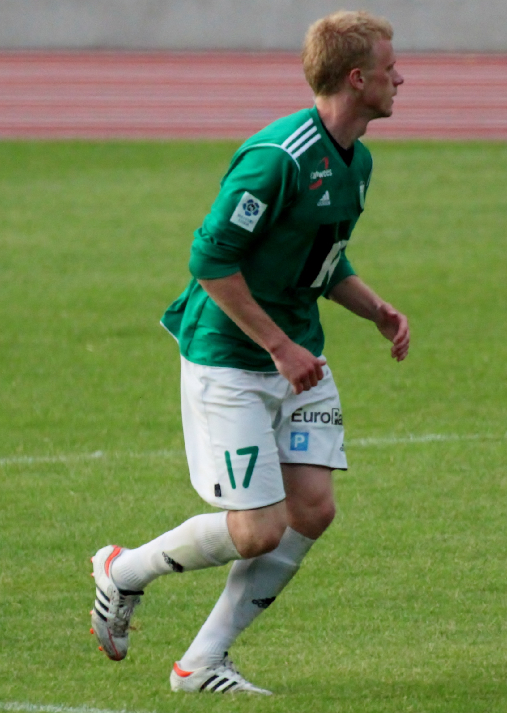 Maksim Podholjuzin playing football against Nõmme Kalju for Levadia